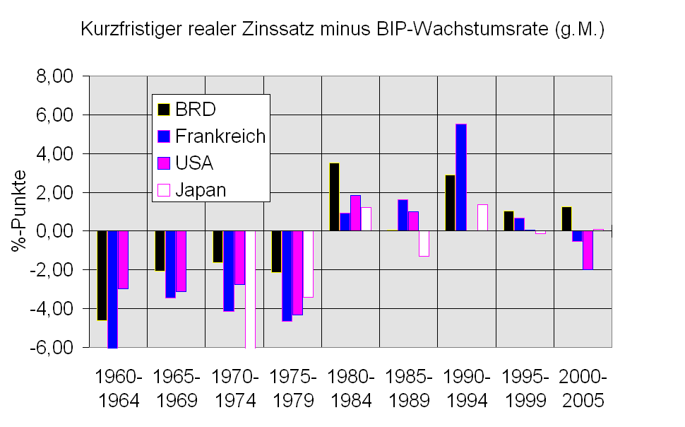 German graphic, difference short term interest rates vs. growth rates Gross Domestic Product - countries: BRD/FRG, France, USA, Japan